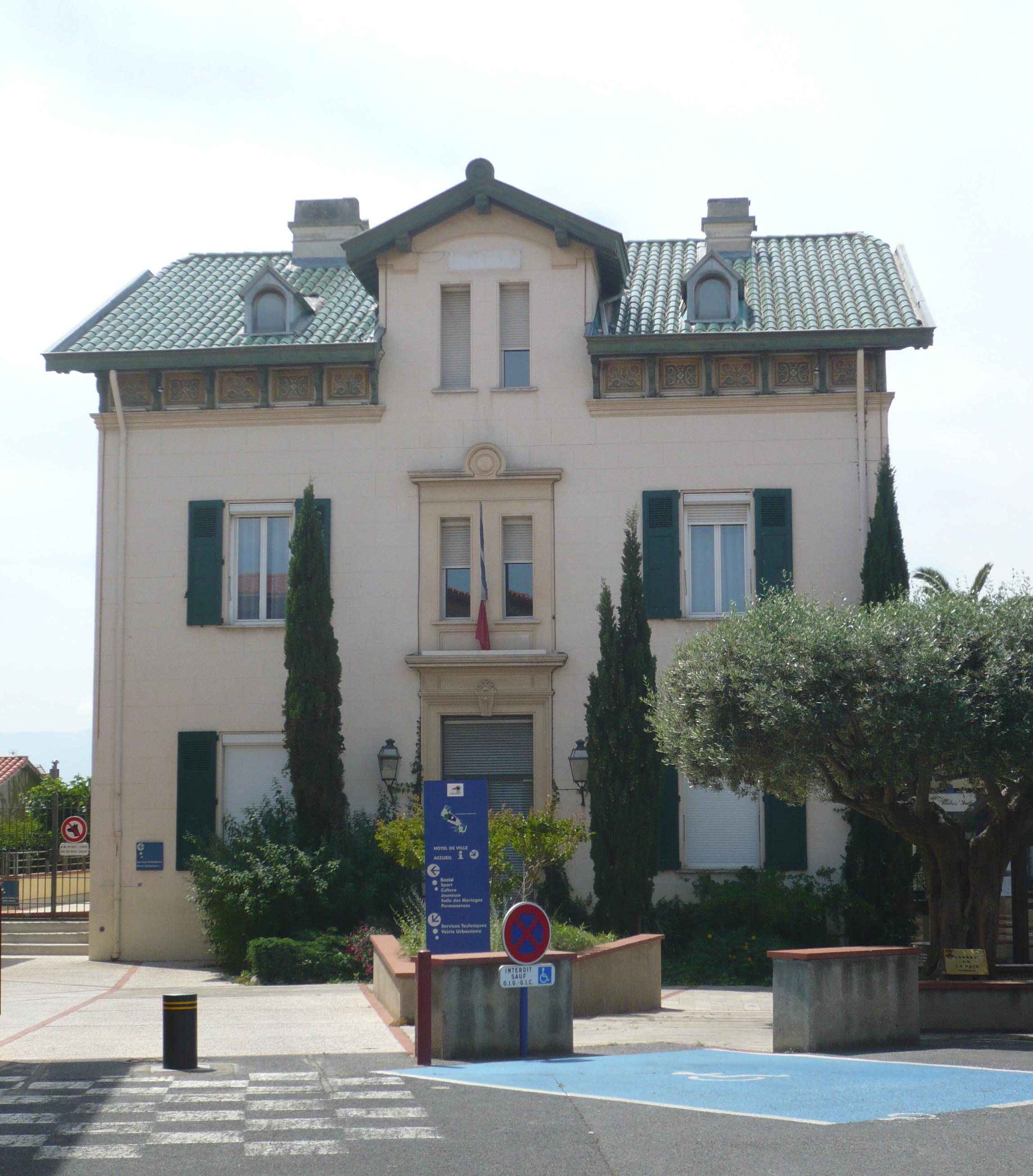 Mairie de Cabestany